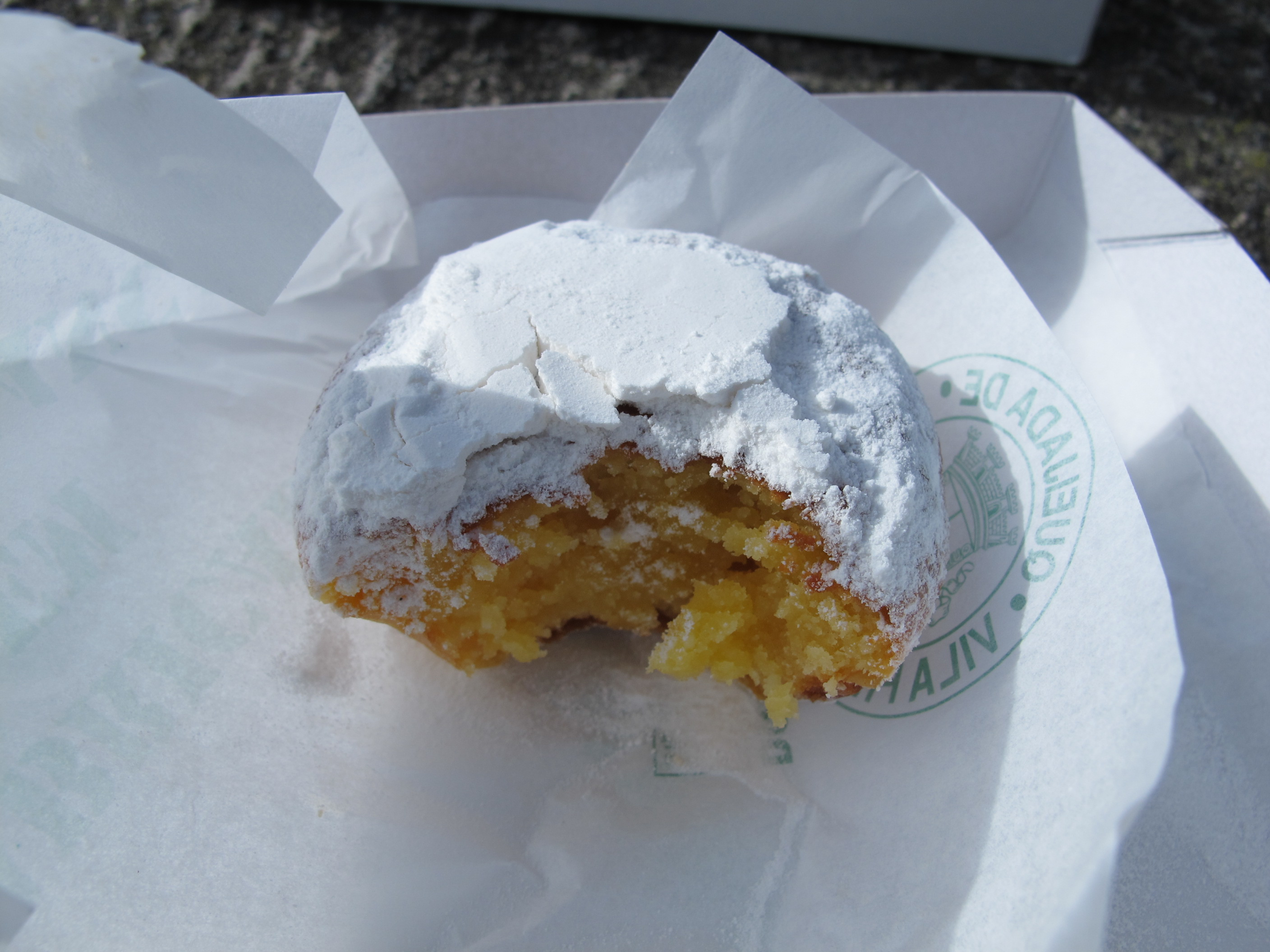 A Queijada Vila Franca do Campo with a bite taken